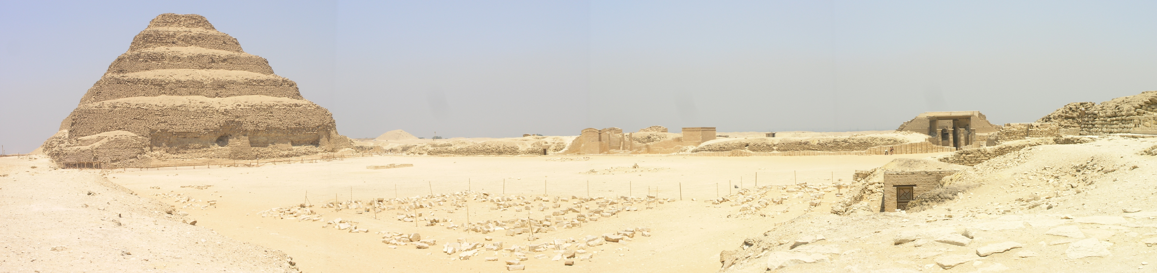 Saqqara - Step Pyramid and Great South Court panorama